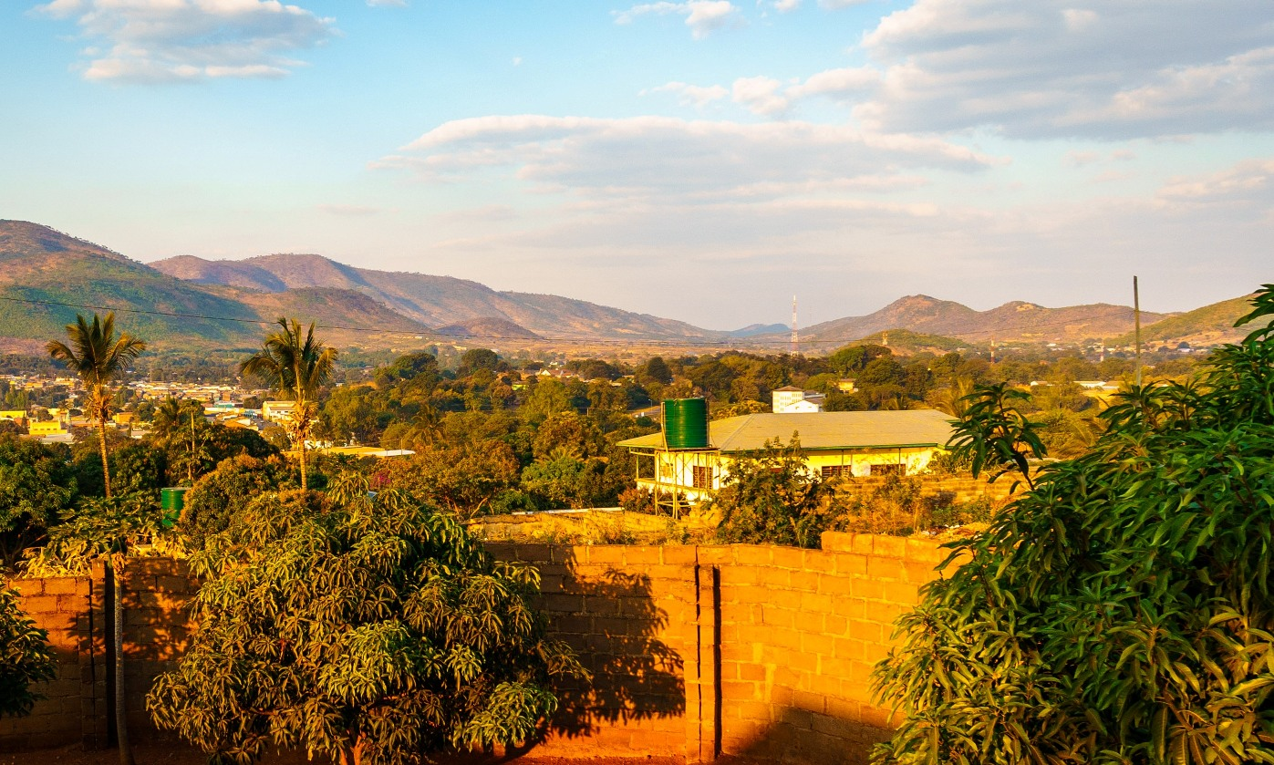 View of Chipata from Little Bombay.